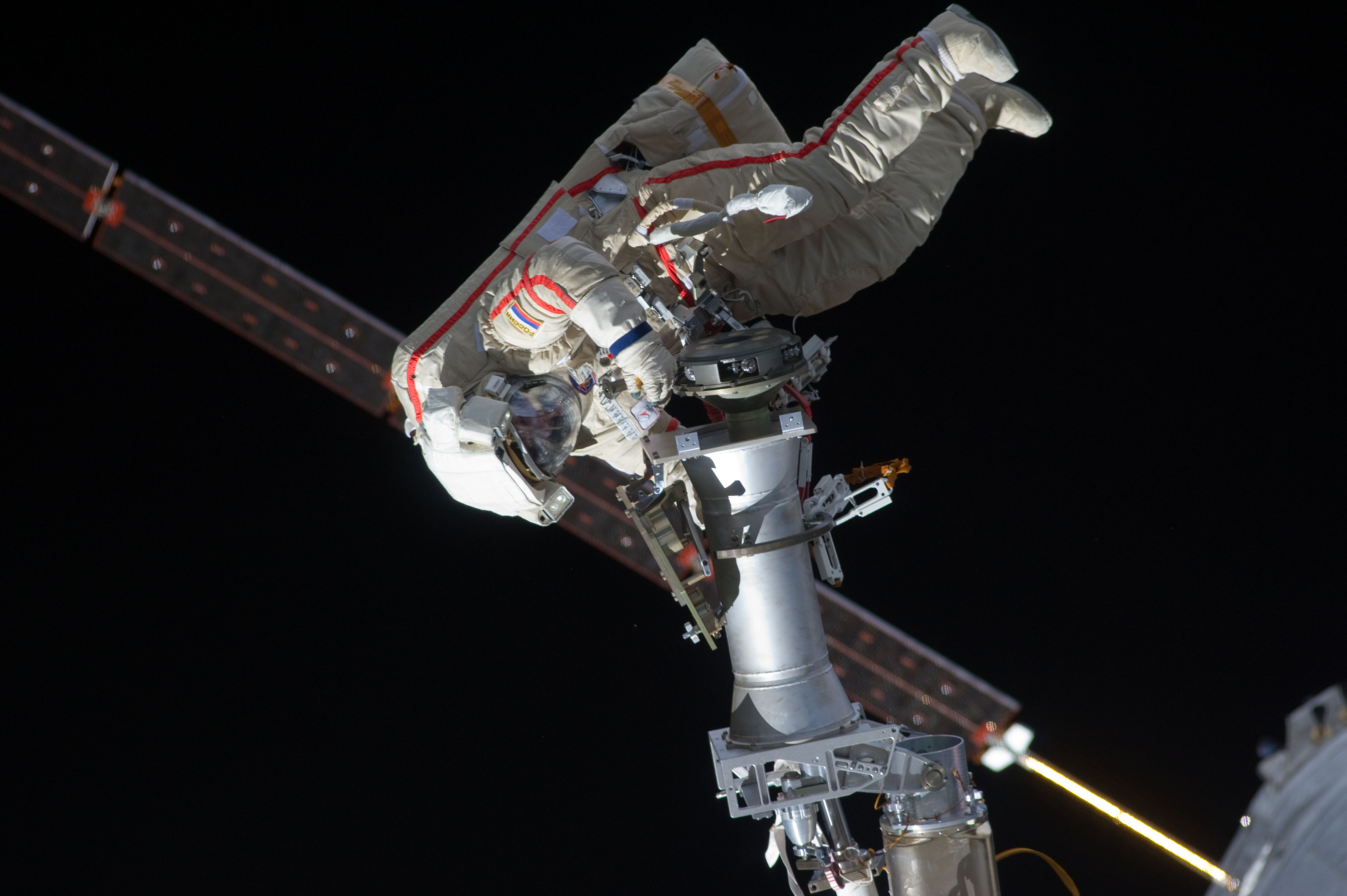 Russian cosmonaut Gennady Padalka, Expedition 32 commander, participates in a session of extravehicular activity (EVA) to continue outfitting the International Space Station. During the five-hour, 51-minute spacewalk, Padalka and Russian cosmonaut Yuri Malenchenko (out of frame), flight engineer, moved the Strela-2 cargo boom from the Pirs docking compartment to the Zarya module to prepare Pirs for its eventual replacement with a new Russian multipurpose laboratory module. The two spacewalking cosmonauts also installed micrometeoroid debris shields on the exterior of the Zvezda service module and deployed a small science satellite.